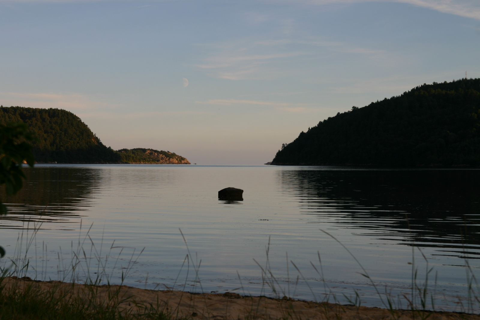 The rock at the beach in Snik.